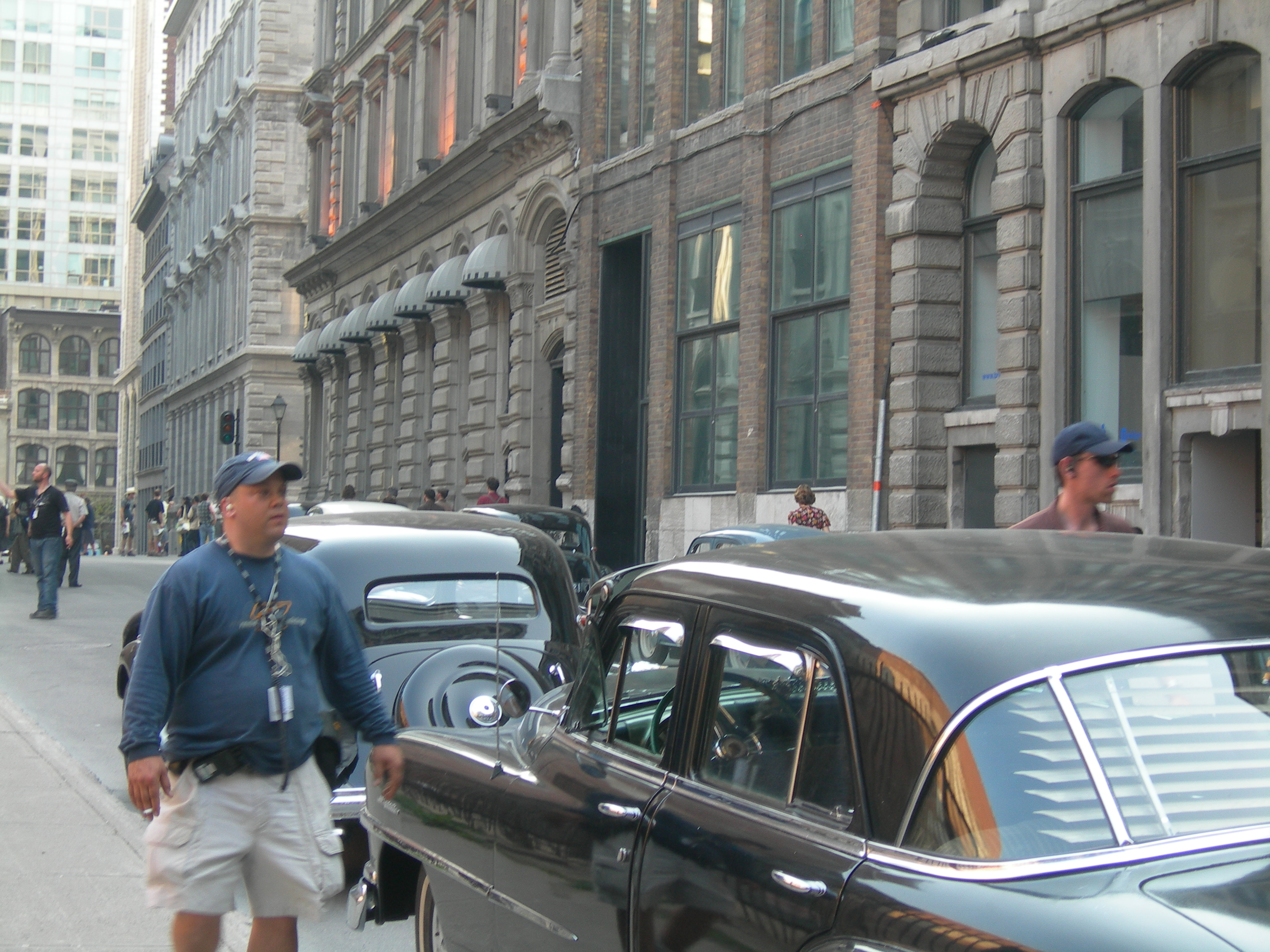 The Curious Case of Benjamin Button film's "parisian" shooting in Montreal, Canada